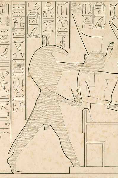 Closeup of a drawing of an ancient Egyptian relief depicting the god Seth praising the High priest of Amun Herihor (only his cartouches are visible). In subsequent times, after his demonization Seth's figure was obliterated. From Karnak, Temple T of Khonsu (forecourt D, east wall), 20th Dynasty, New Kingdom.